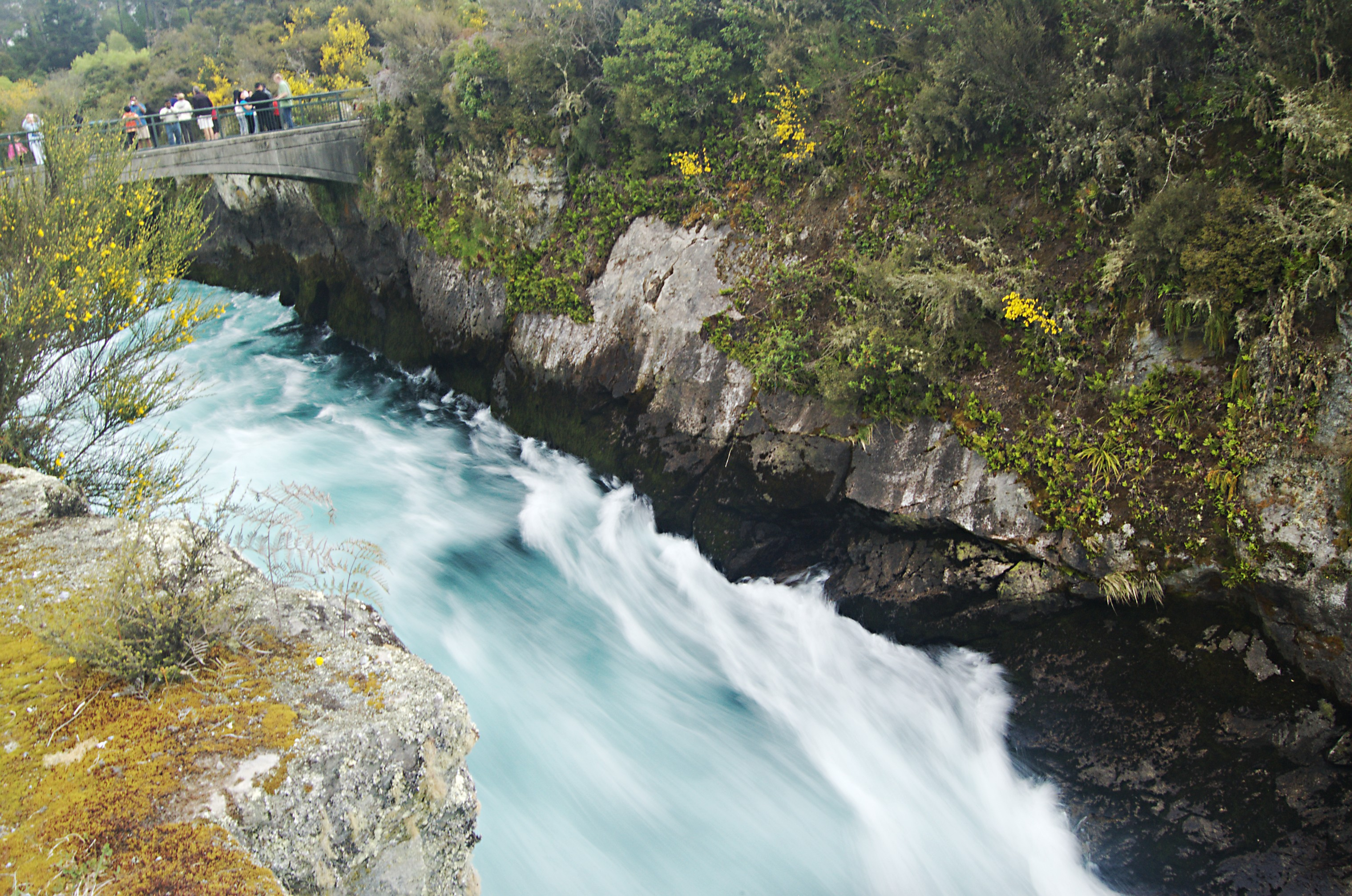 A Photo of the canyon in the Huka Falls in Taupo, NZ